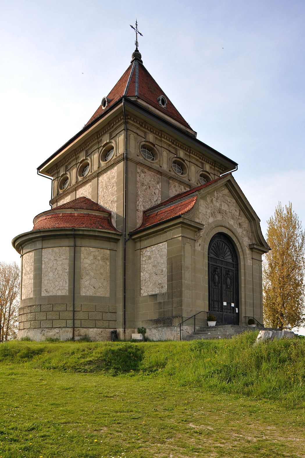 Chapel Sacré-coeur de Jésus in Posieux; Fribourg, Switzerland.